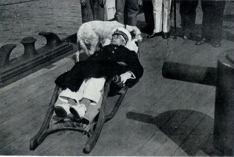 Horthy's swoon on the board of SMS Novara